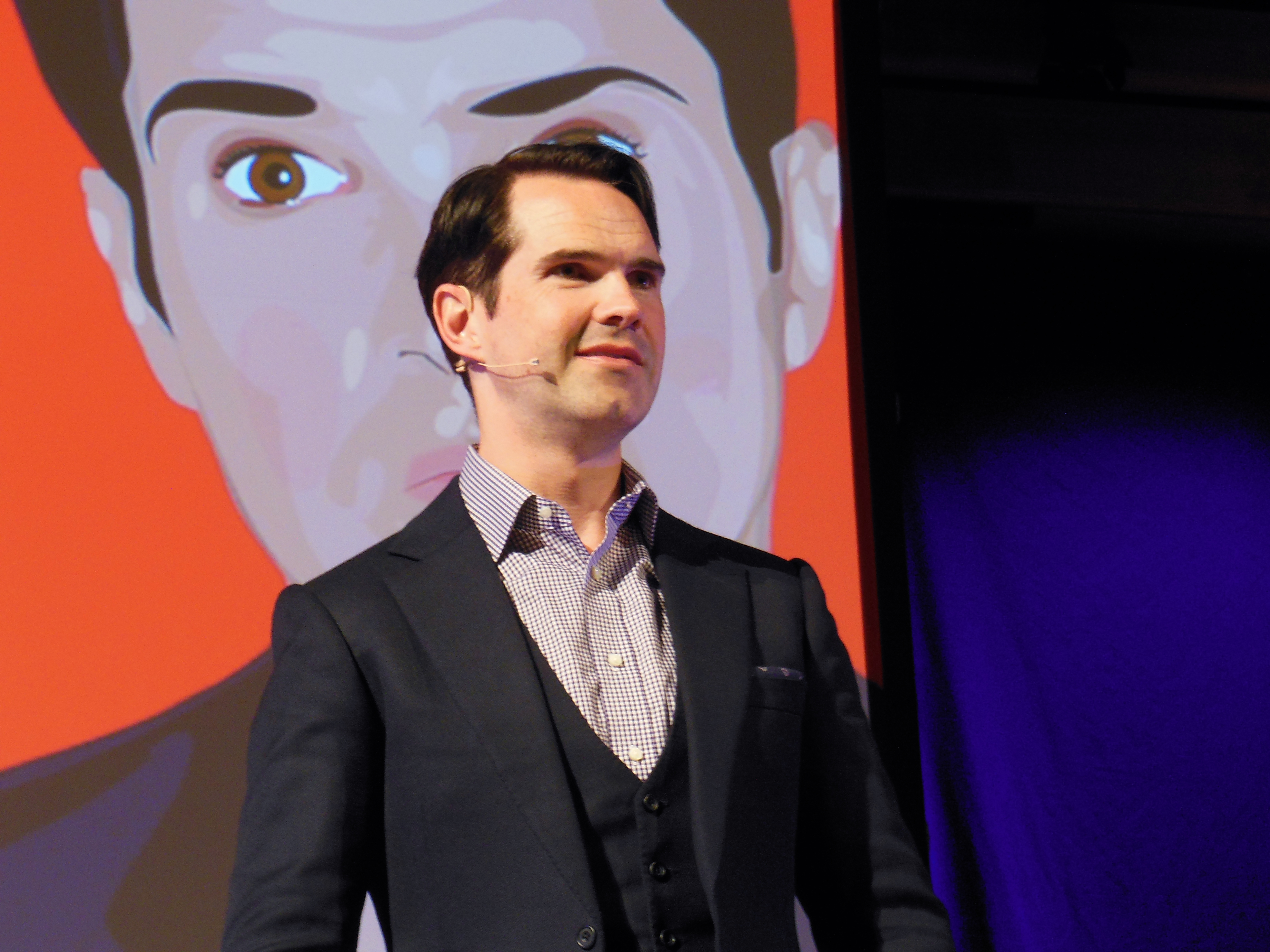 Jimmy Carr at the Gothenburg Concert Hall in April 2015.